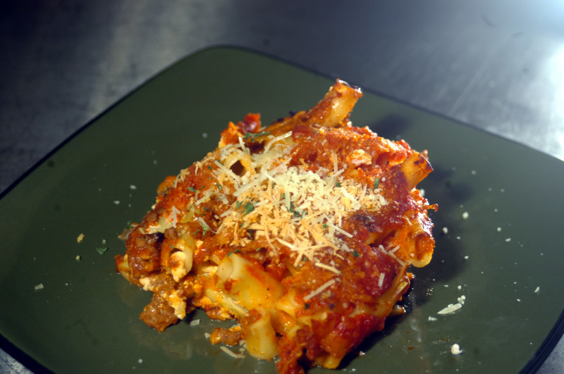 Baked ziti, a dish with beef, 3 cheeses, and Ziti Pasta